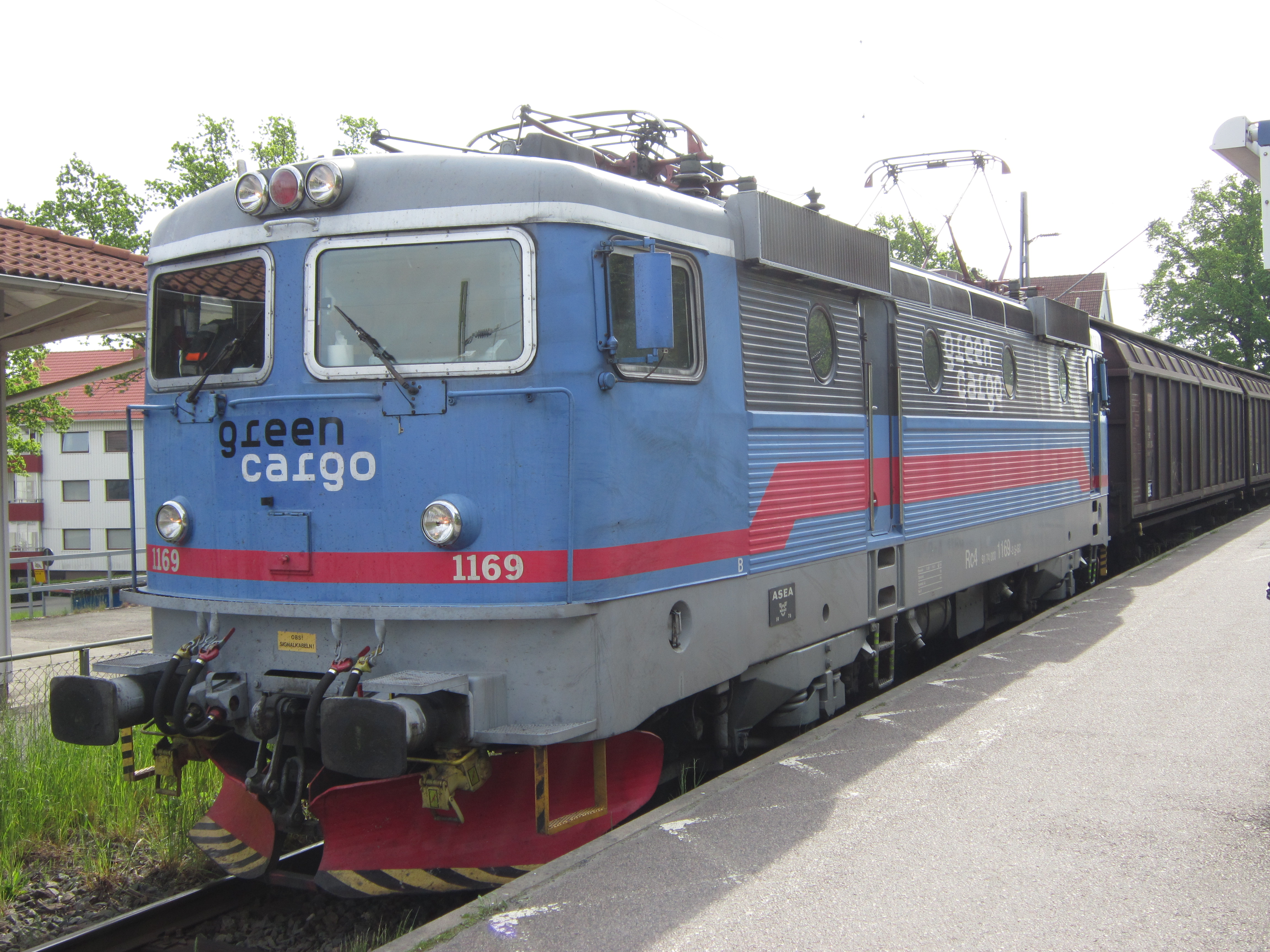 Green Cargo Rc4 1169 at Huskvarna station.